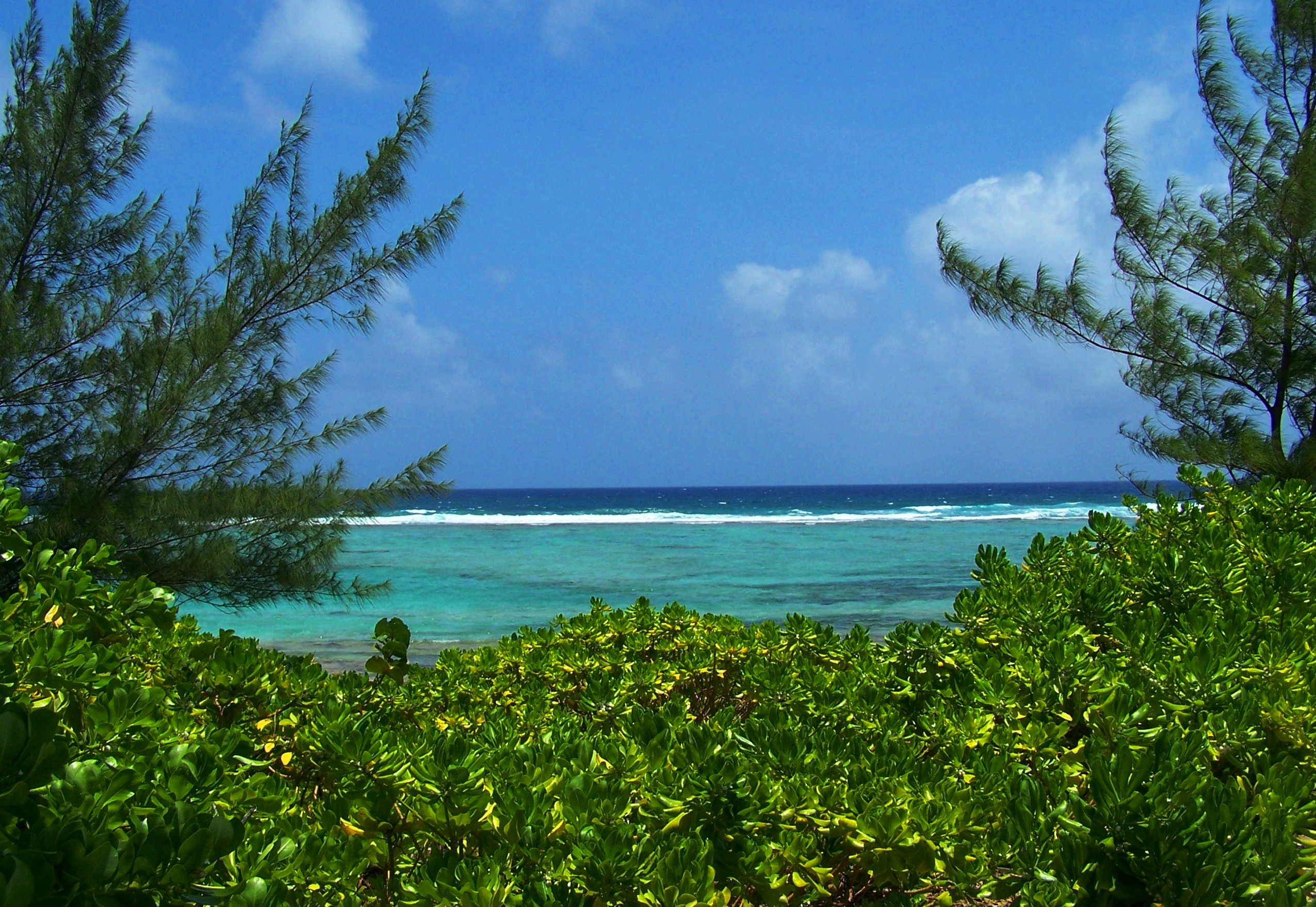 View of Caribbean Ocean from Bodden Town, Grand Cayman Island